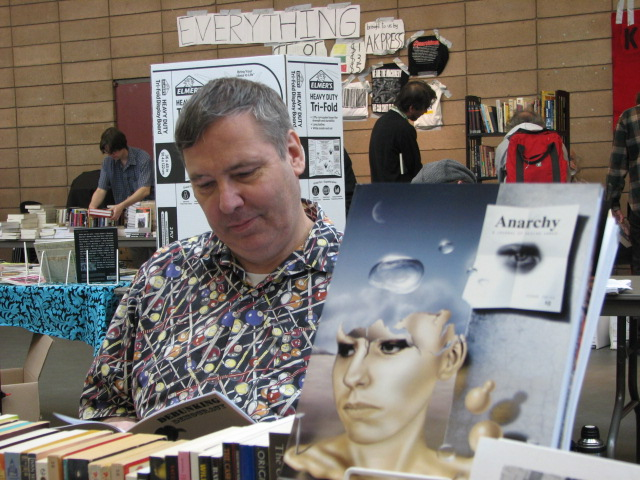 Bob Black (Robert Charles Black, Jr.) at the Anarchy: A Journal of Desire Armed" table, attending the 2011 Bay Area Anarchist Bookfair.